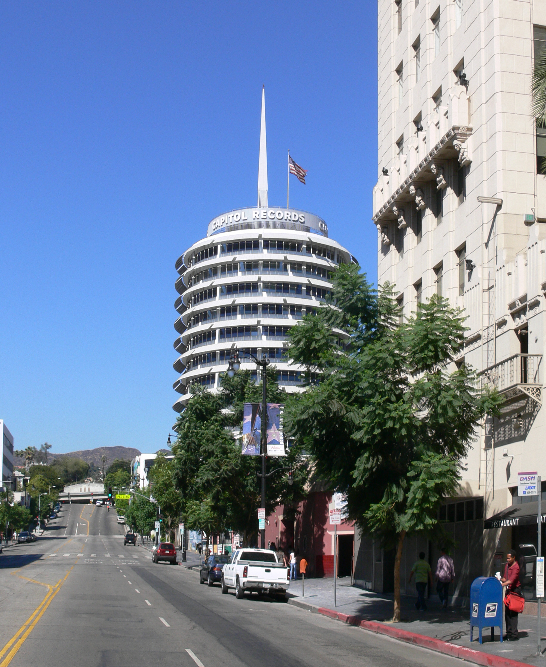 Capitol Records Building, Hollywood, Los Angeles, California; seen from the "Hollywood and Vine" intersection